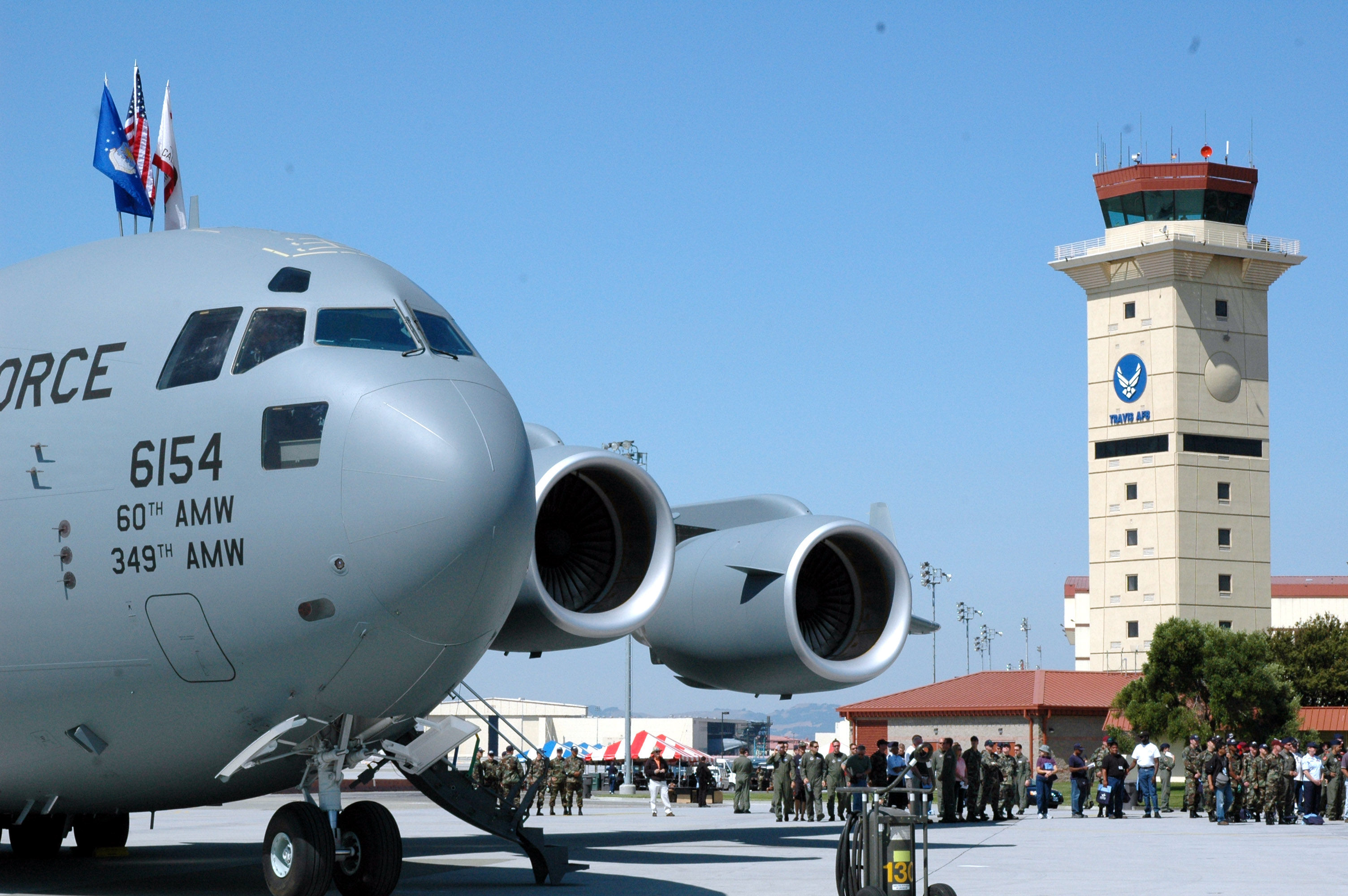 Travis Air Force Base celebrates the arrival of its first C-17, the "Spirit of Solano." It's the first of 13 C-17s that Travis AFB will recieve, adding its tactical capabilities to Travis' mission - the strategic airlift of the C-5 and the aerial refueling of the KC-10. (Air Force photo/Staff Sgt. Matt McGovern)